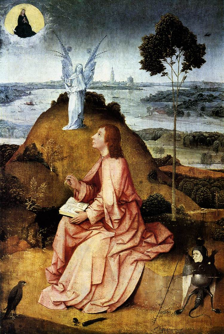 Front of a two-sided painting. For the reverse, see File:Jheronimus Bosch Scenes from the Passion (full).jpg.